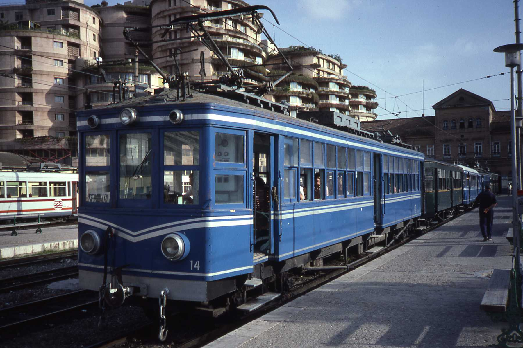 Old electric car in the regional "Pont de Fusta" railway station in Valencia in 1987.